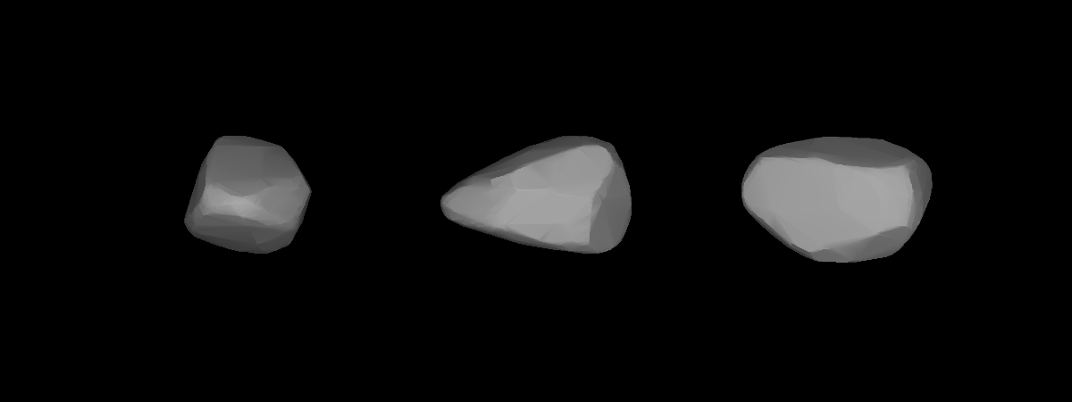 A three-dimensional model of 340 Eduarda that was computed using light curve inversion techniques.